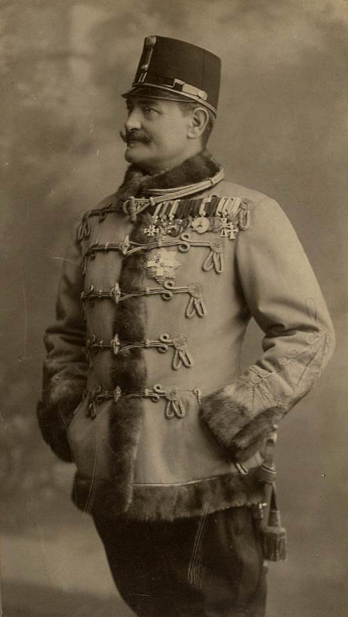 Feldzeugmeister Árpád TAMÁSY (or TAMÁSSY) von Fogaras, 1861-1939 hung. division commander in WW1, adjoint commander of The Fortress of Przemyśl, in 1918. Corps Commander